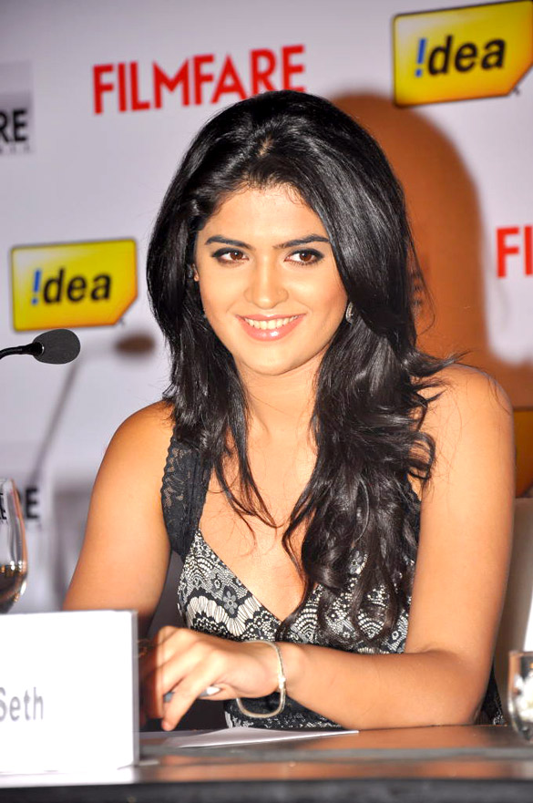 Deeksha 59th filmfare awards(south) press meet